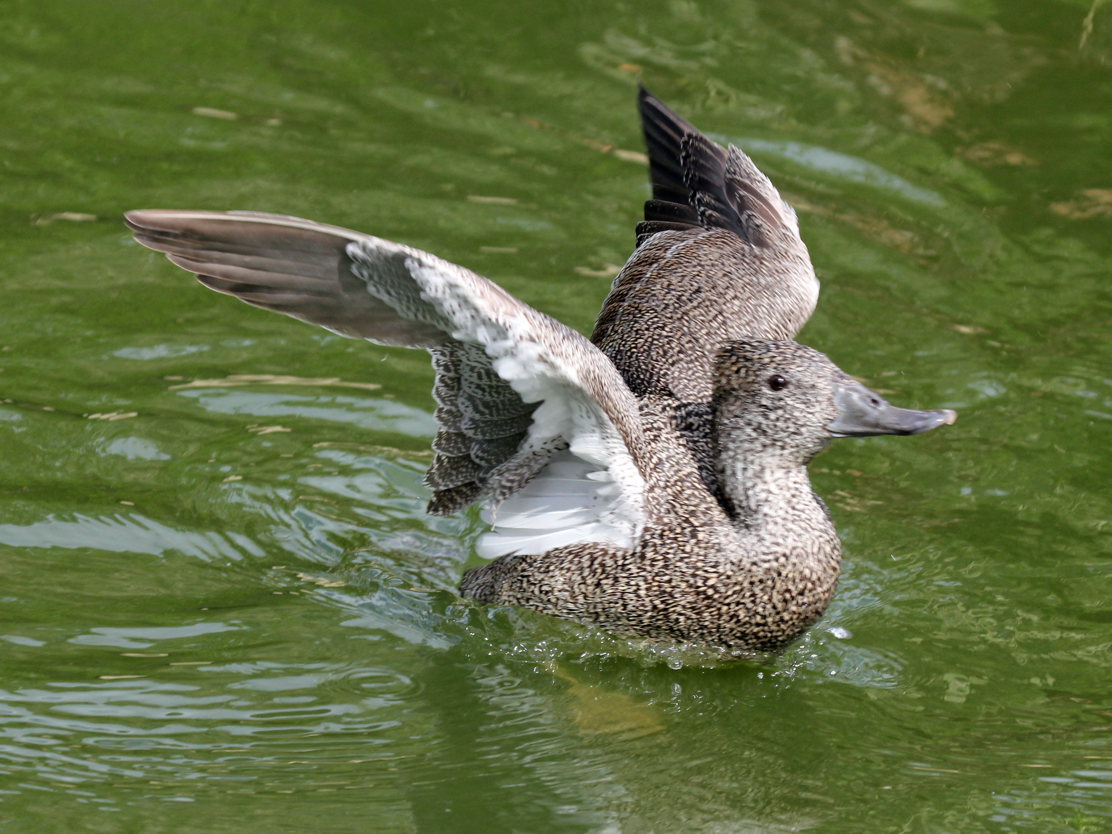 Female Freckled Duck (Stictonetta naevosa) at Sylvan Heights Waterfowl Park in Scotland Neck, North Carolina.